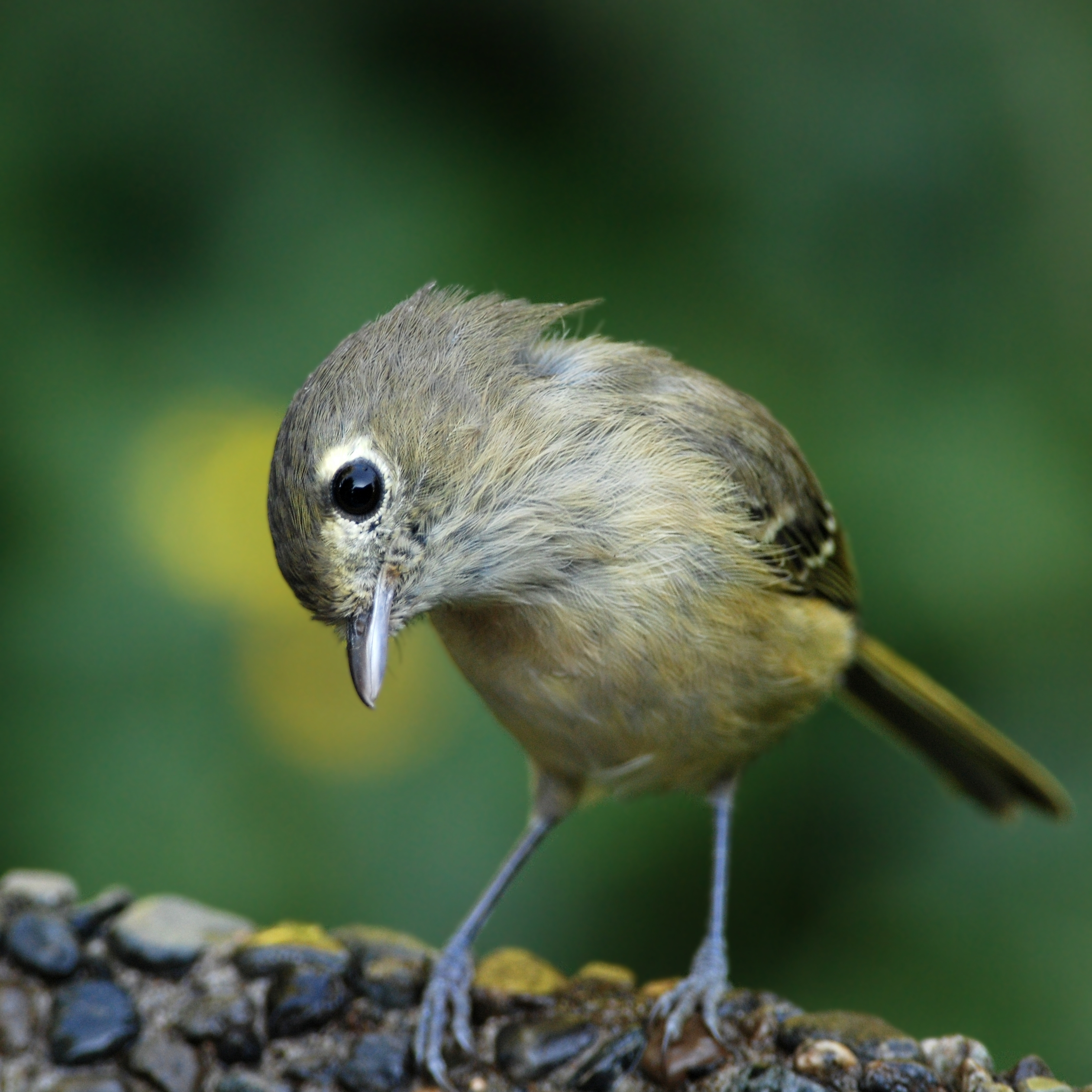 Hutton's Vireo (Vireo huttoni)